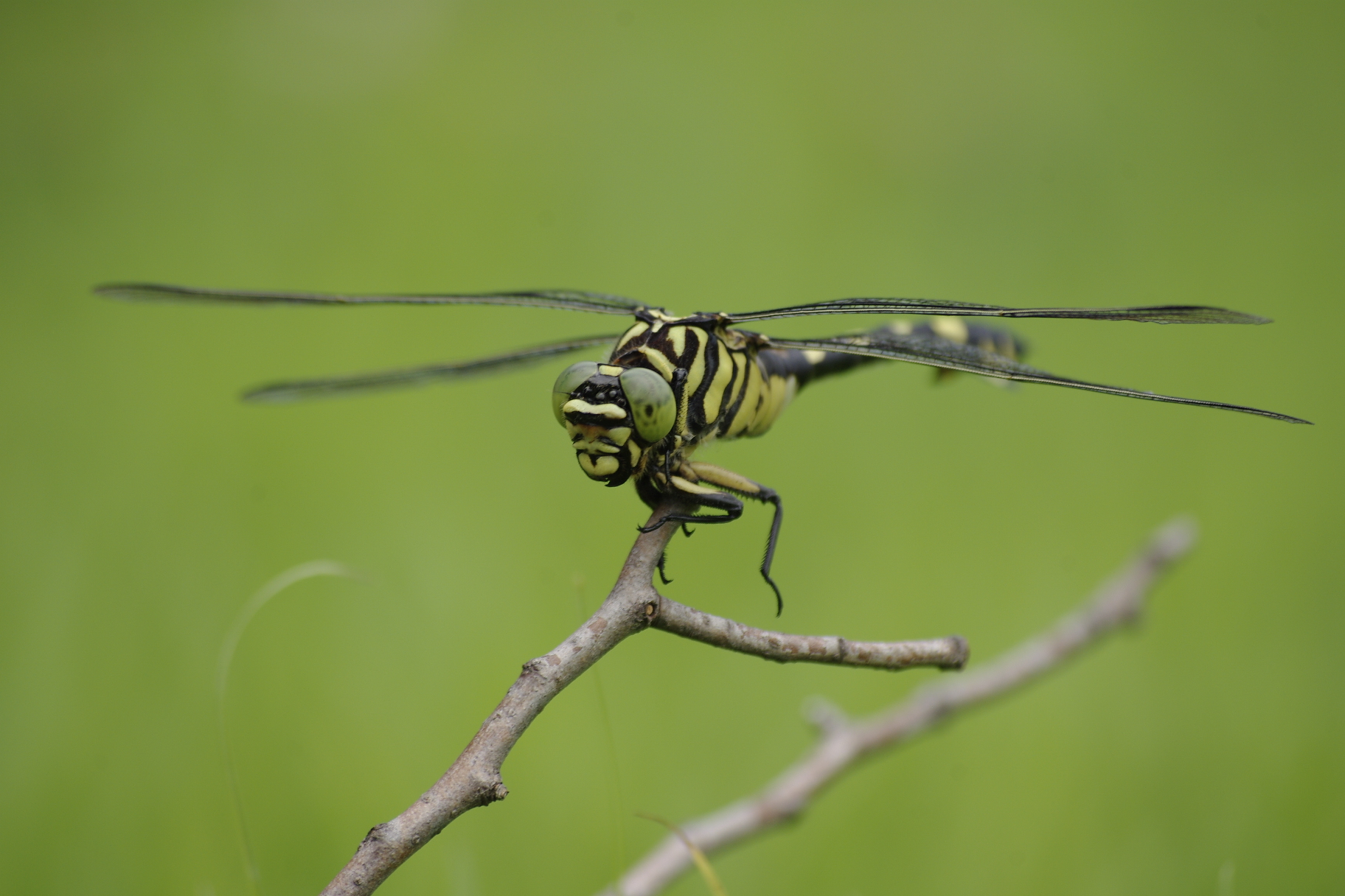 Seen in Osaka, Japan. Genus: Gomphus. Possibly a Gomphus flavipes.